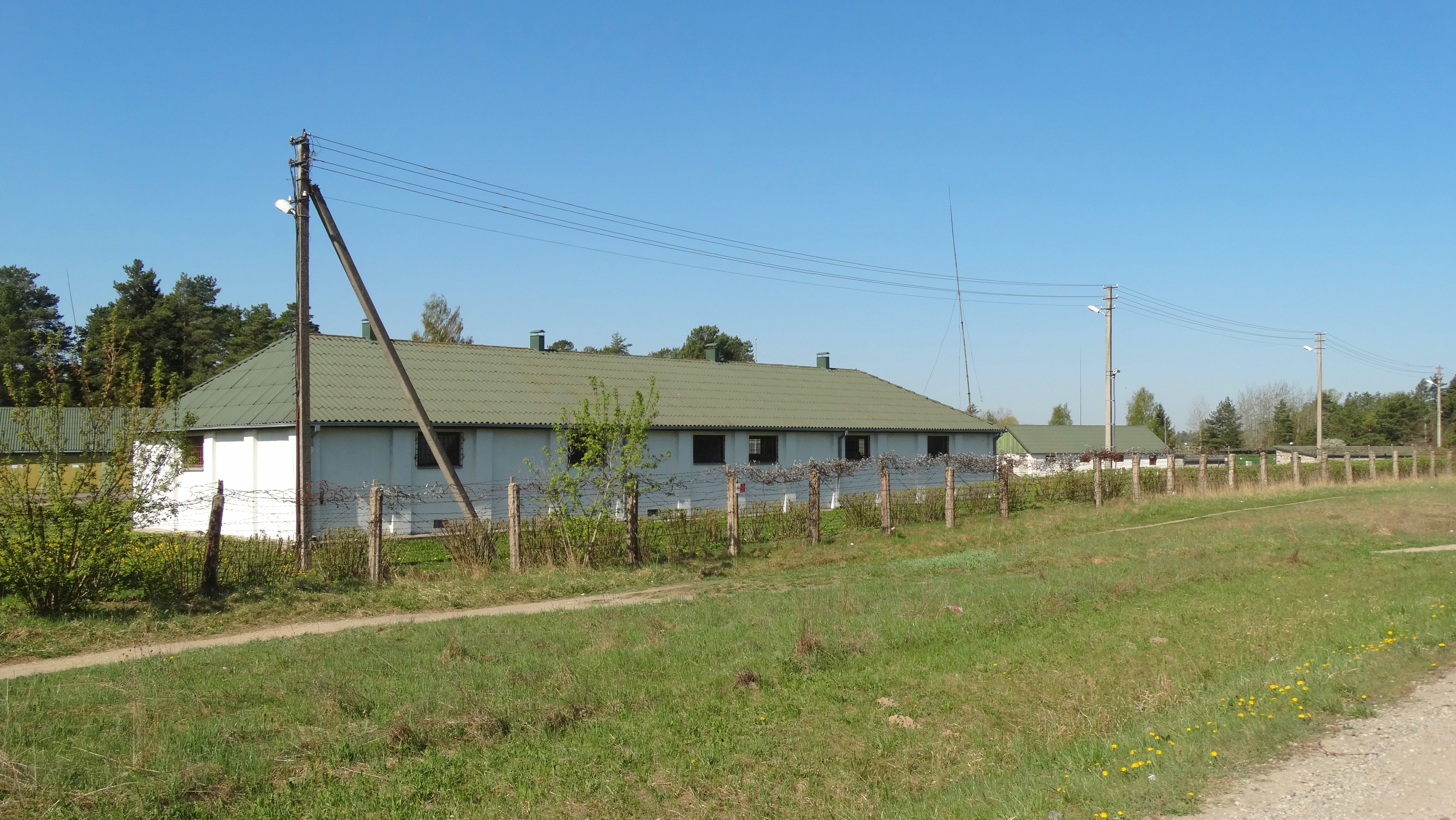 Linkaičiai (Radviliškis), Lithuania